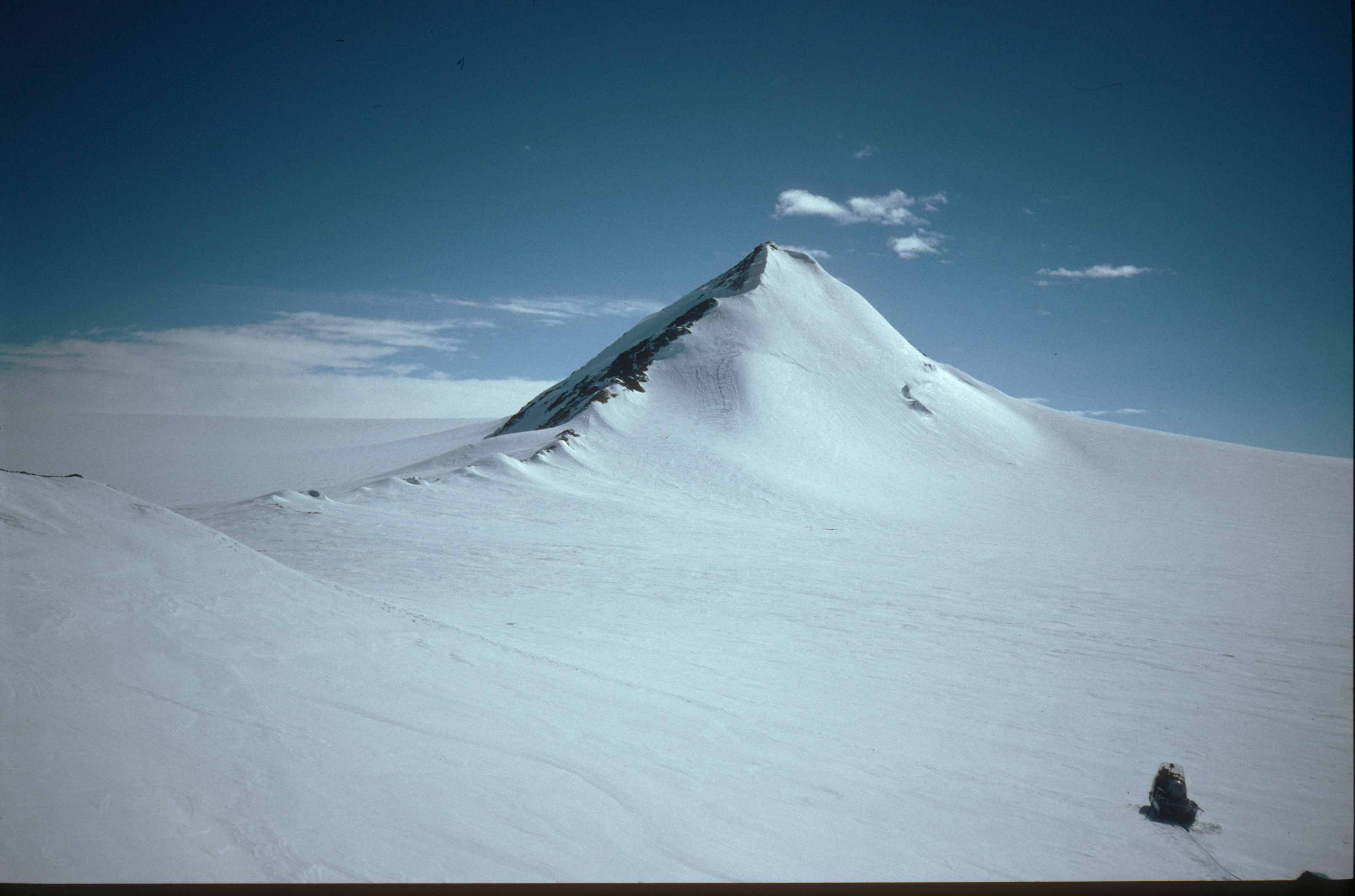 Hagerty Peak north, a peak in the southeast extremity of Sweeney Mountains